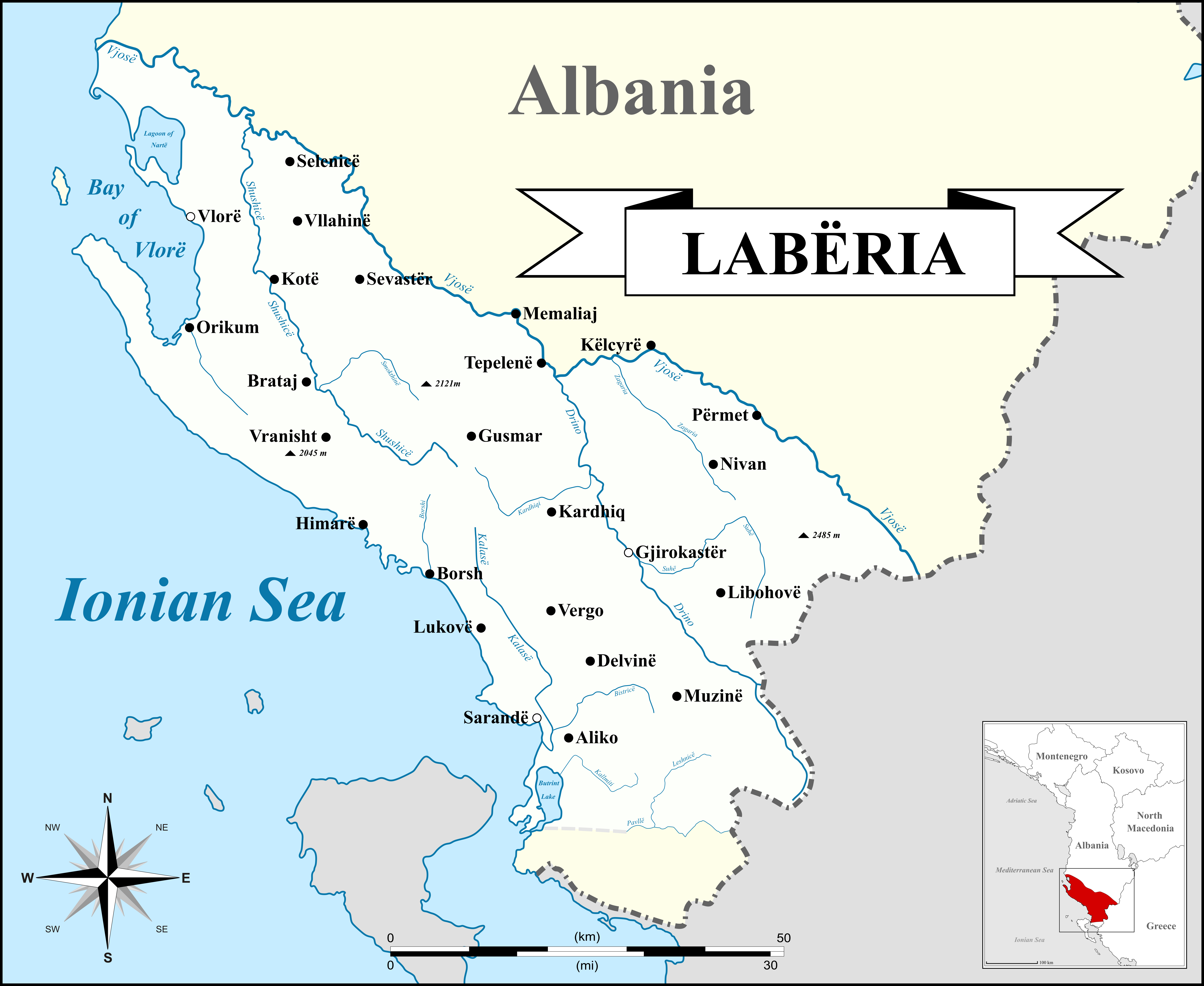 The map depicts the approximative extent of the historical region of Labëria, in Albania.